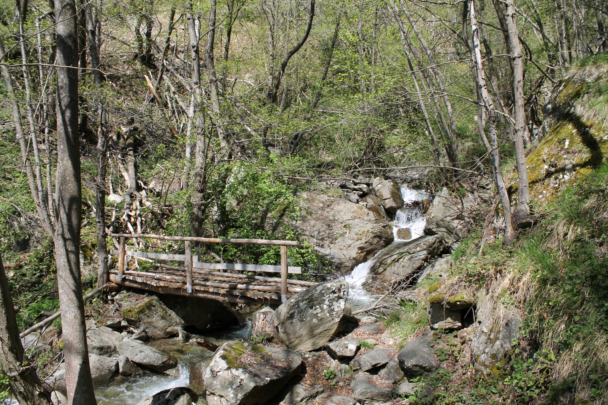 Wood bridge, Ormea, (Italy)